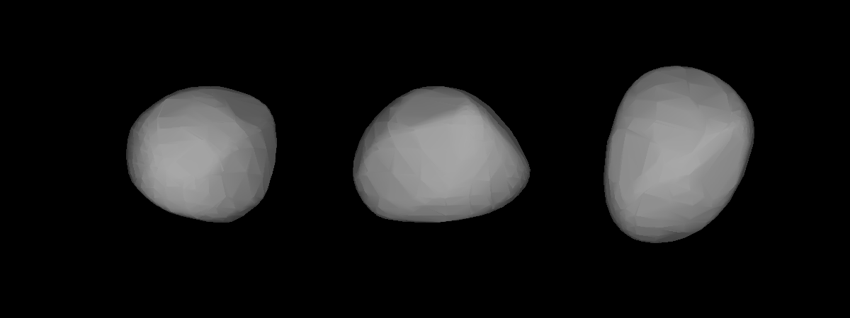 A three-dimensional model of 250 Bettina that was computed using light curve inversion techniques.